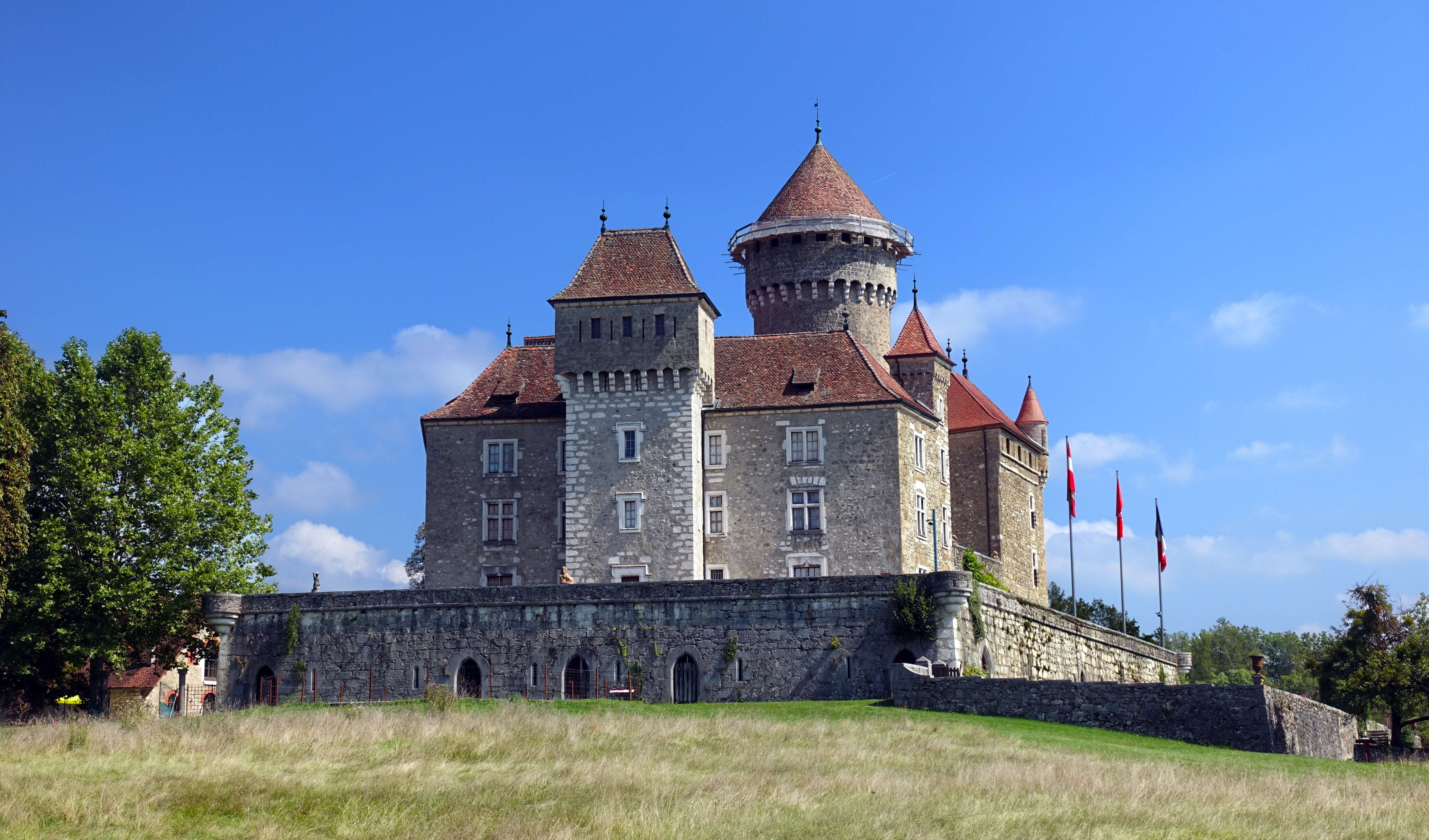 Montrottier Castle in August 2019. Lovagny, France.